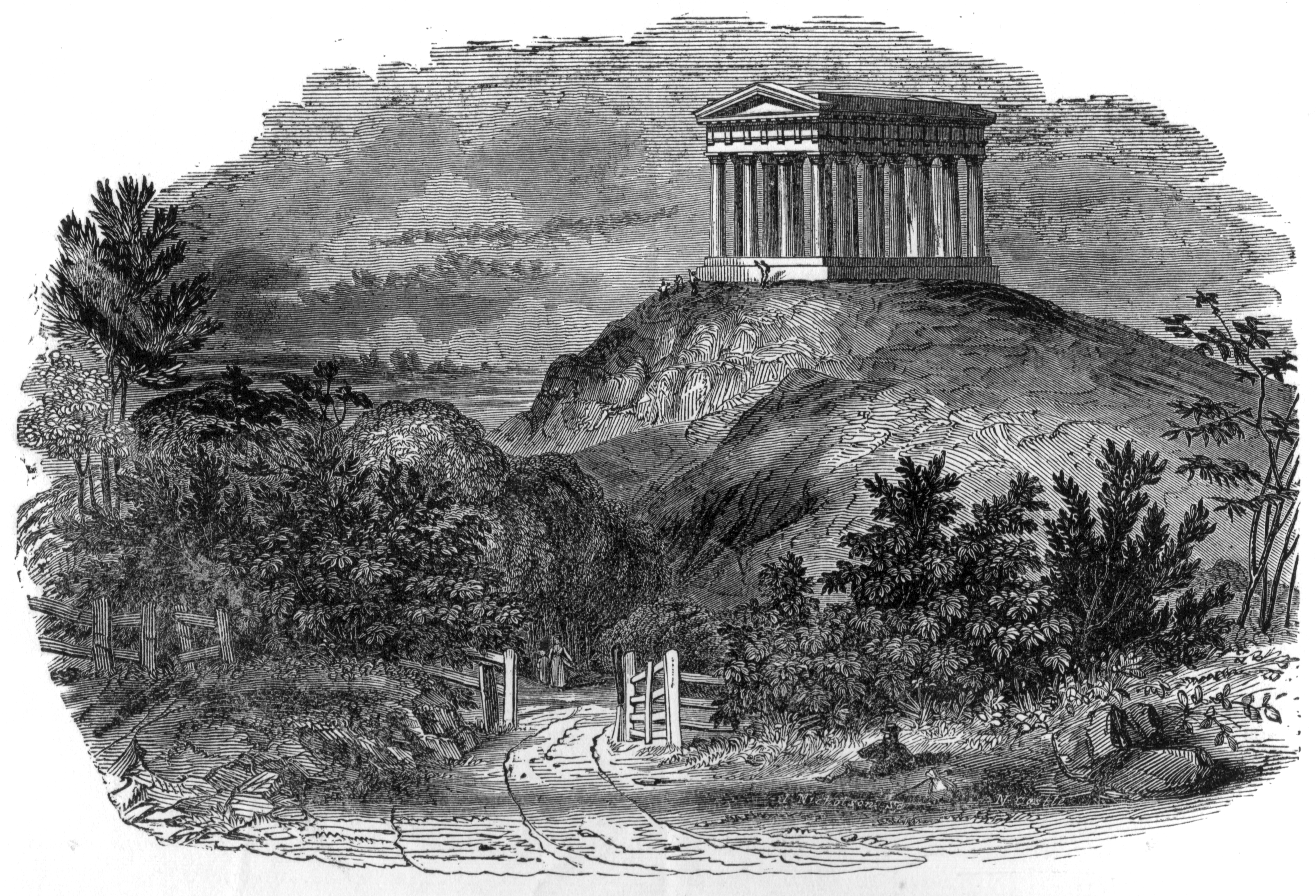 Engraving of Penshaw Monument, made between 1844 and 1848